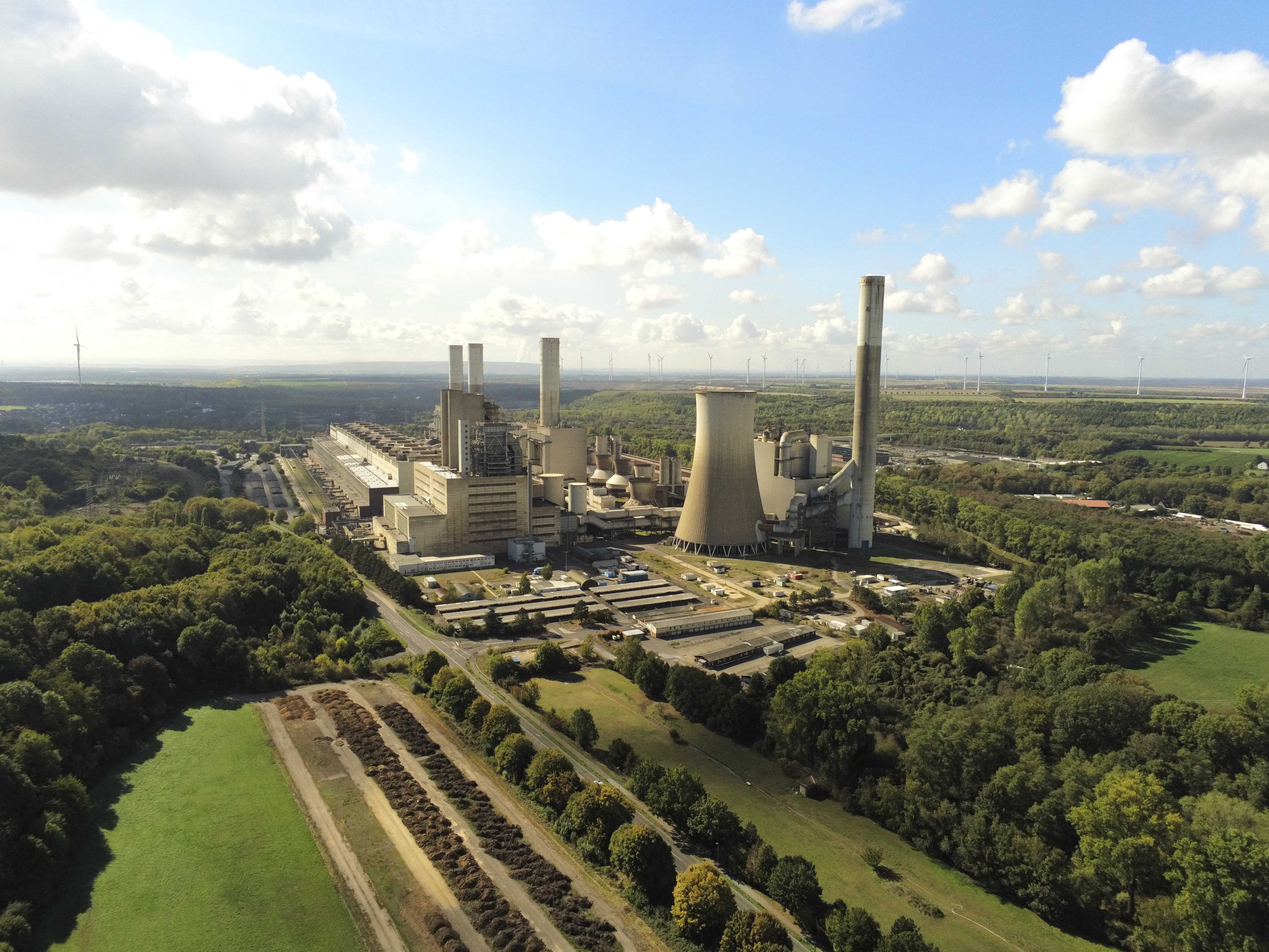 Frimmersdorf Power Plant, aerial photo